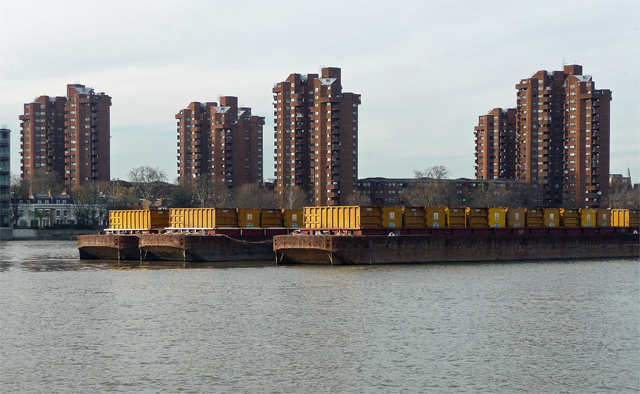 World's End Estate, World's End Place